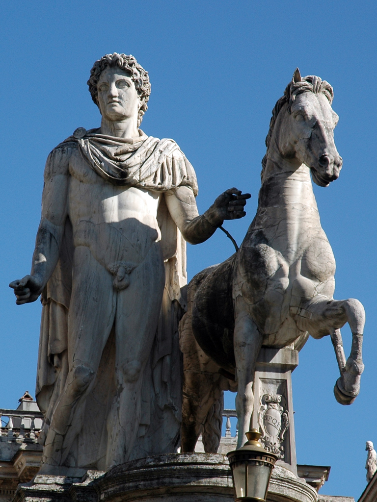 Dioscuri (Castor or Pollux), Rome, Capitol